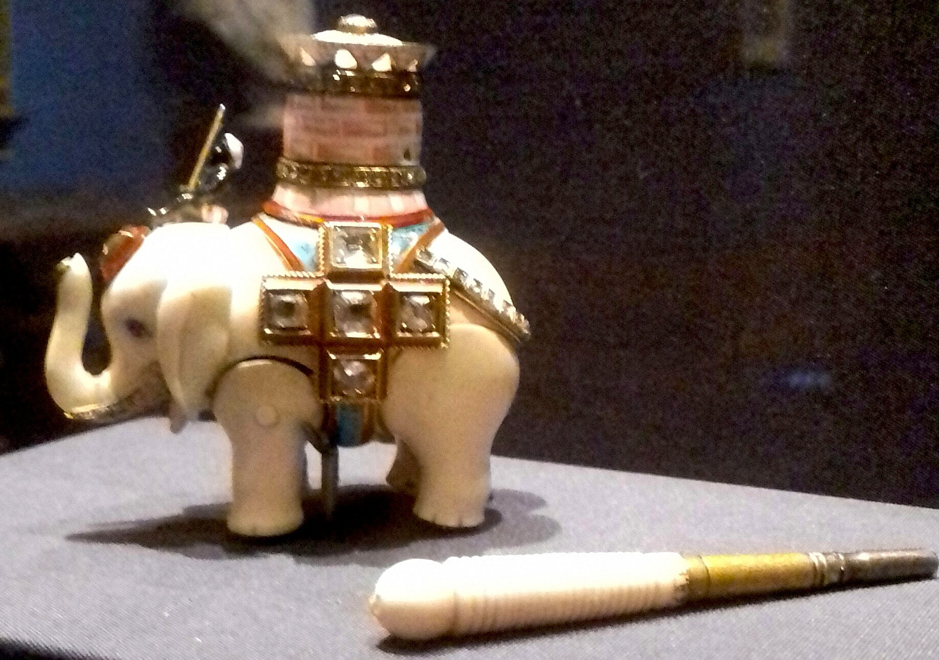 Automaton elephant, it is the surprise of the Fabergé Diamond Trellis Egg (1892) as displayed in the exhibition "Russia, Royalty & the Romanovs". The Queen's Gallery, Edinburgh, Scotland.